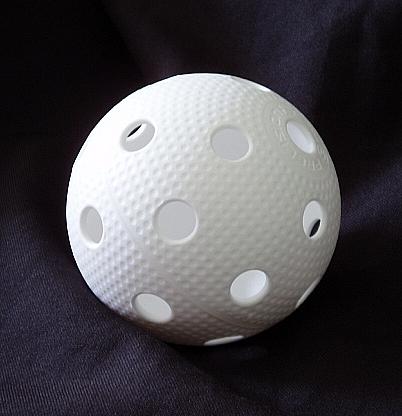 A Floorball ball. It has a diameter of 72 mm and weighs between 20 and 23 grams. There are 26 holes, each measuring 11 mm. The ball also has 1516 small craters on it. Craters improve ball-handling, cause it to slide and fly straighter and smoother, causing it to fly/slide faster and straighter. The picture is taken of the new Precision-model floorball developed and introduced in 2003 by Exel and Canadien, world's two leading floorball companies.